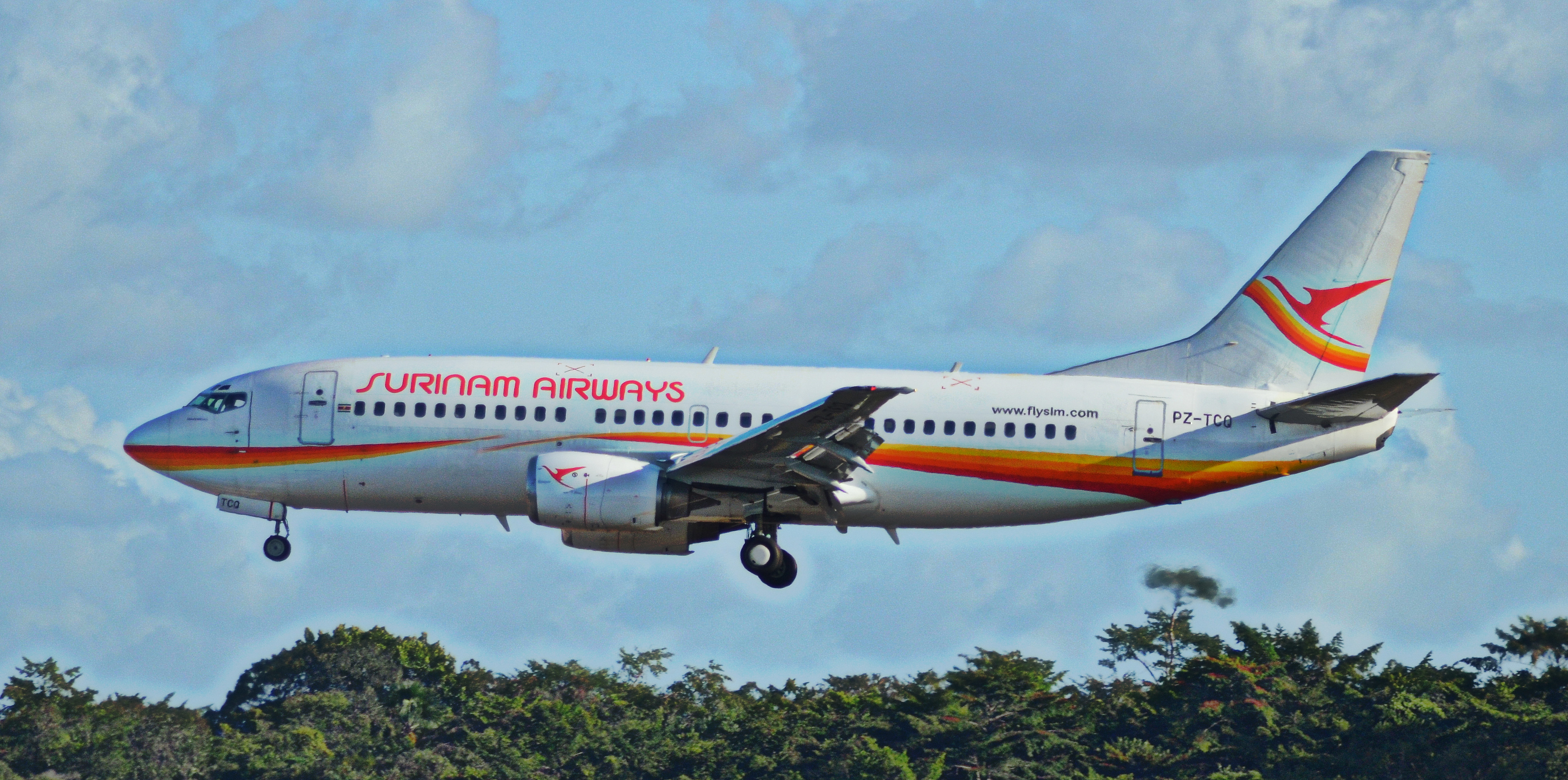 Surinam Airways Boeing 737-300 (PZ-TCQ) on finals at Cayenne-Rochambeau Airport, completing a flight from Belém (SBBE)